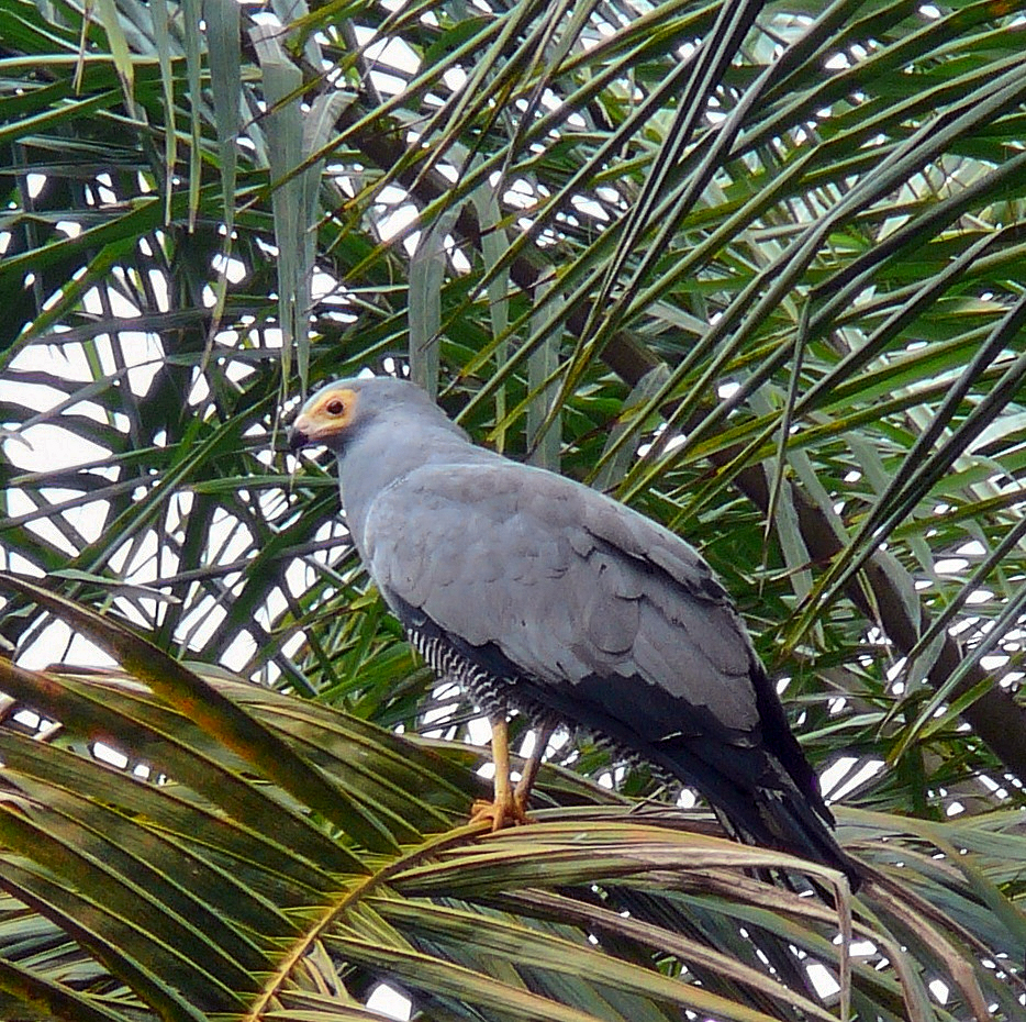 Image Polyboroides_typus_004.jpg croped/inverted